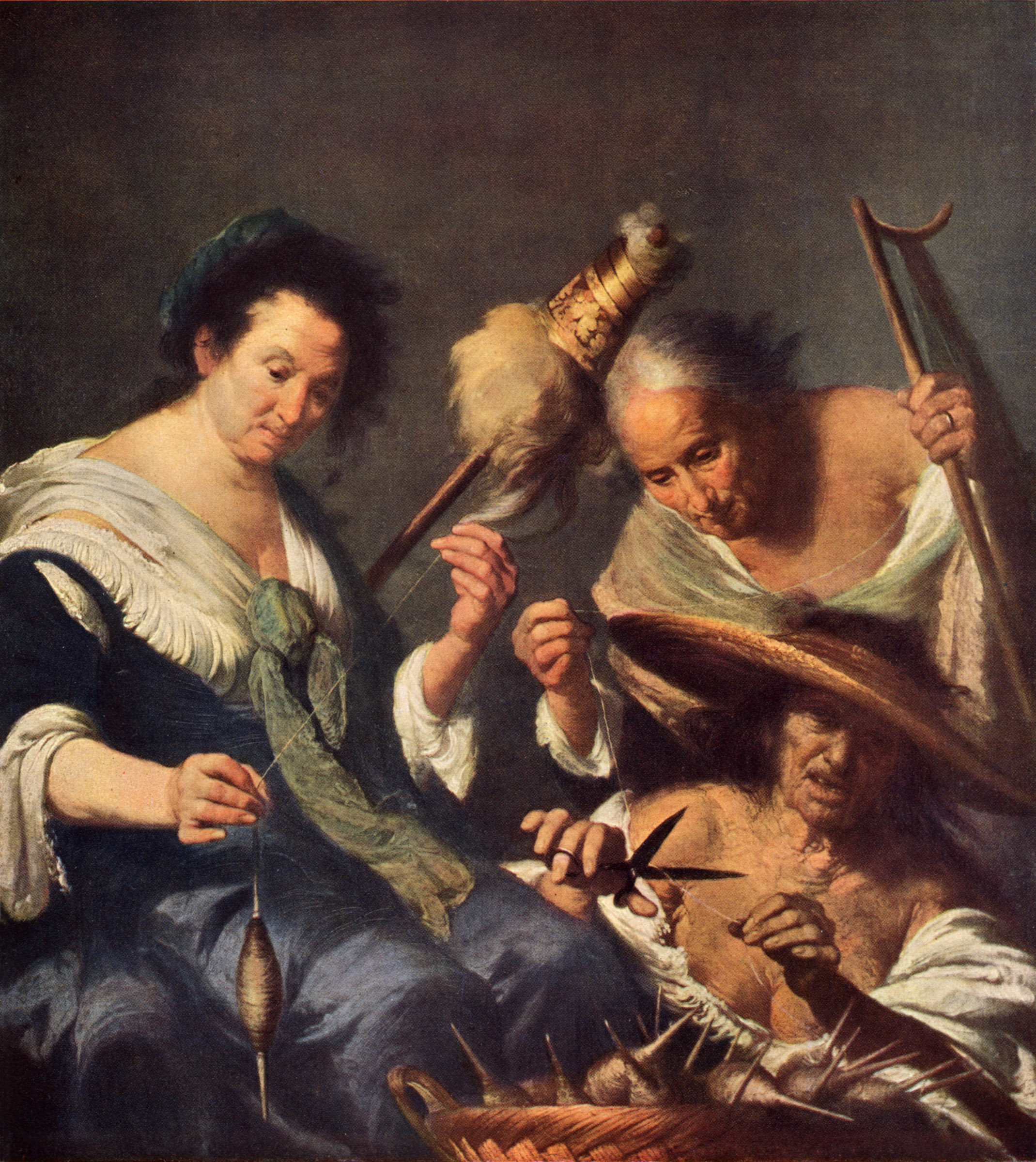 The Three Fates